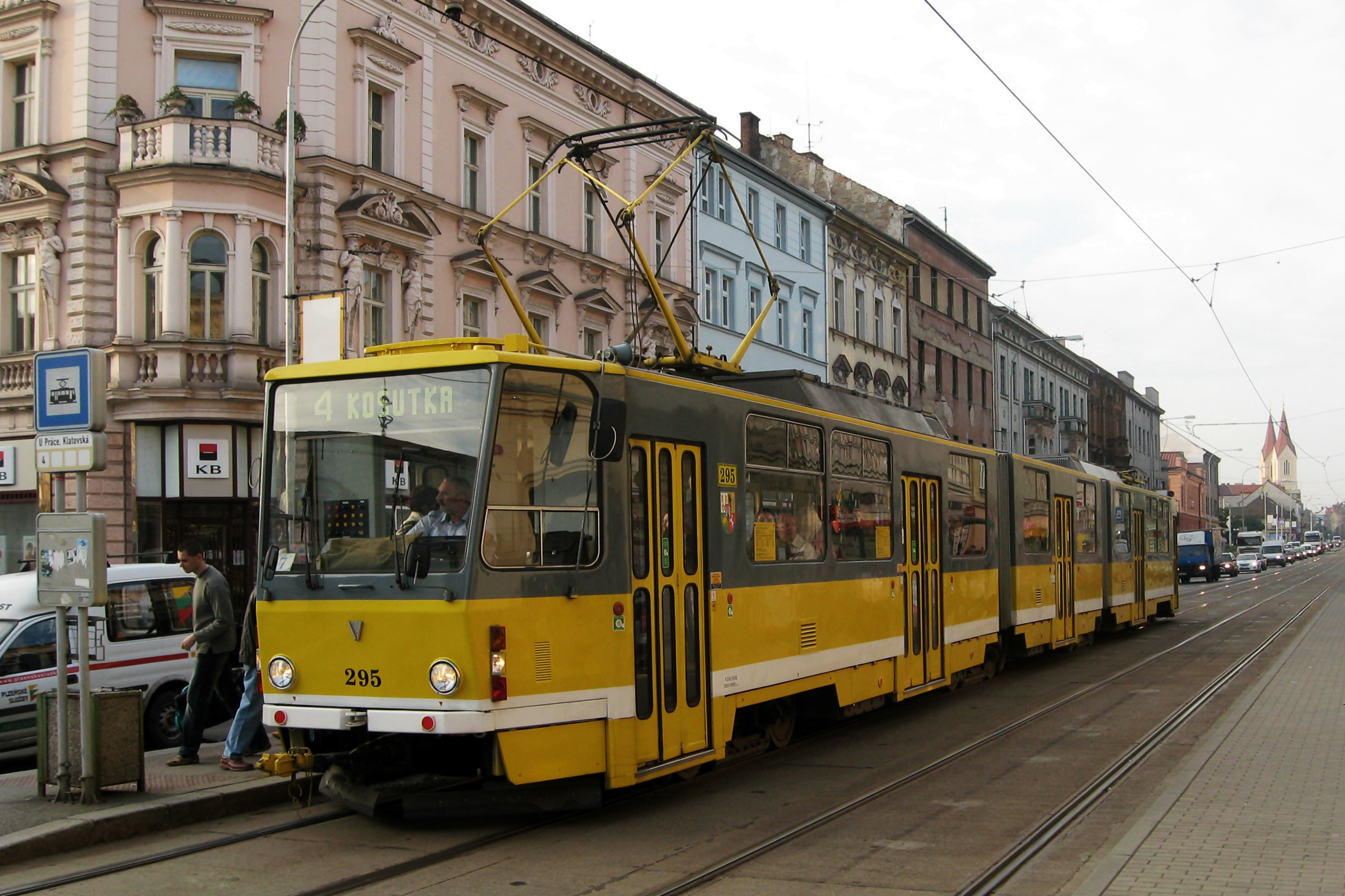 Tram Tatra KT8D5 in Plzeň(#295), Czech Republic .